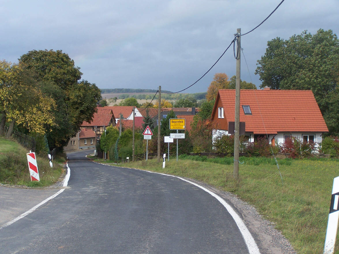 Beuernfeld village.